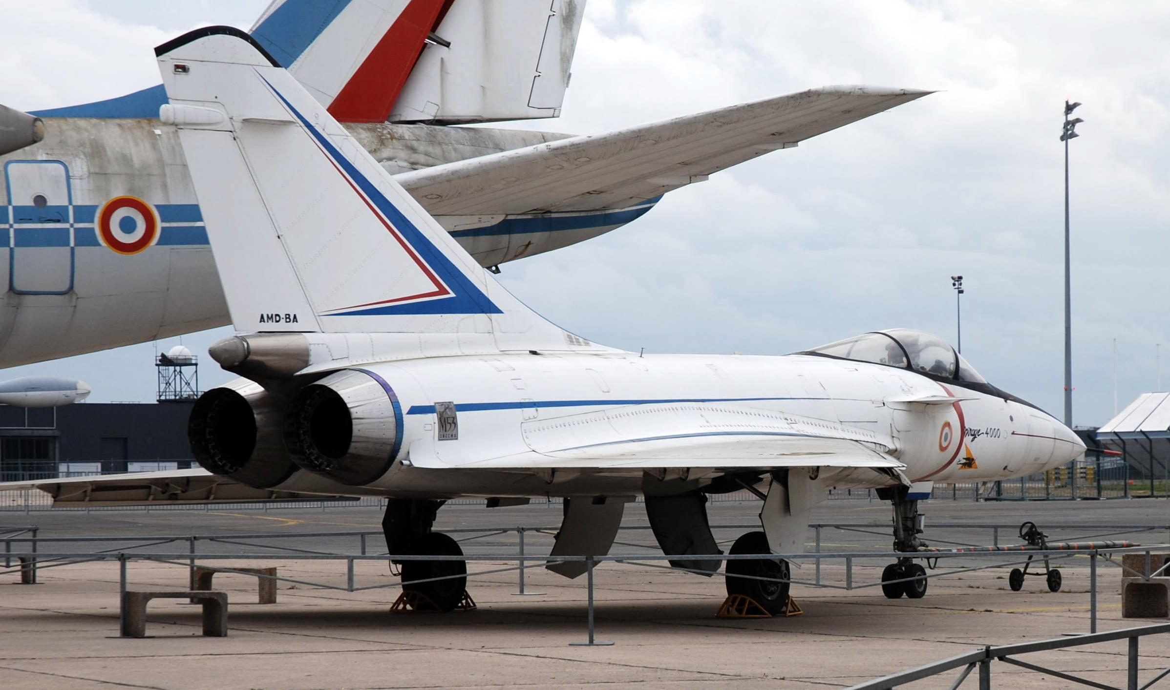 Photo ref; Nikon-D80-2013-DSC_1112 (Edited)